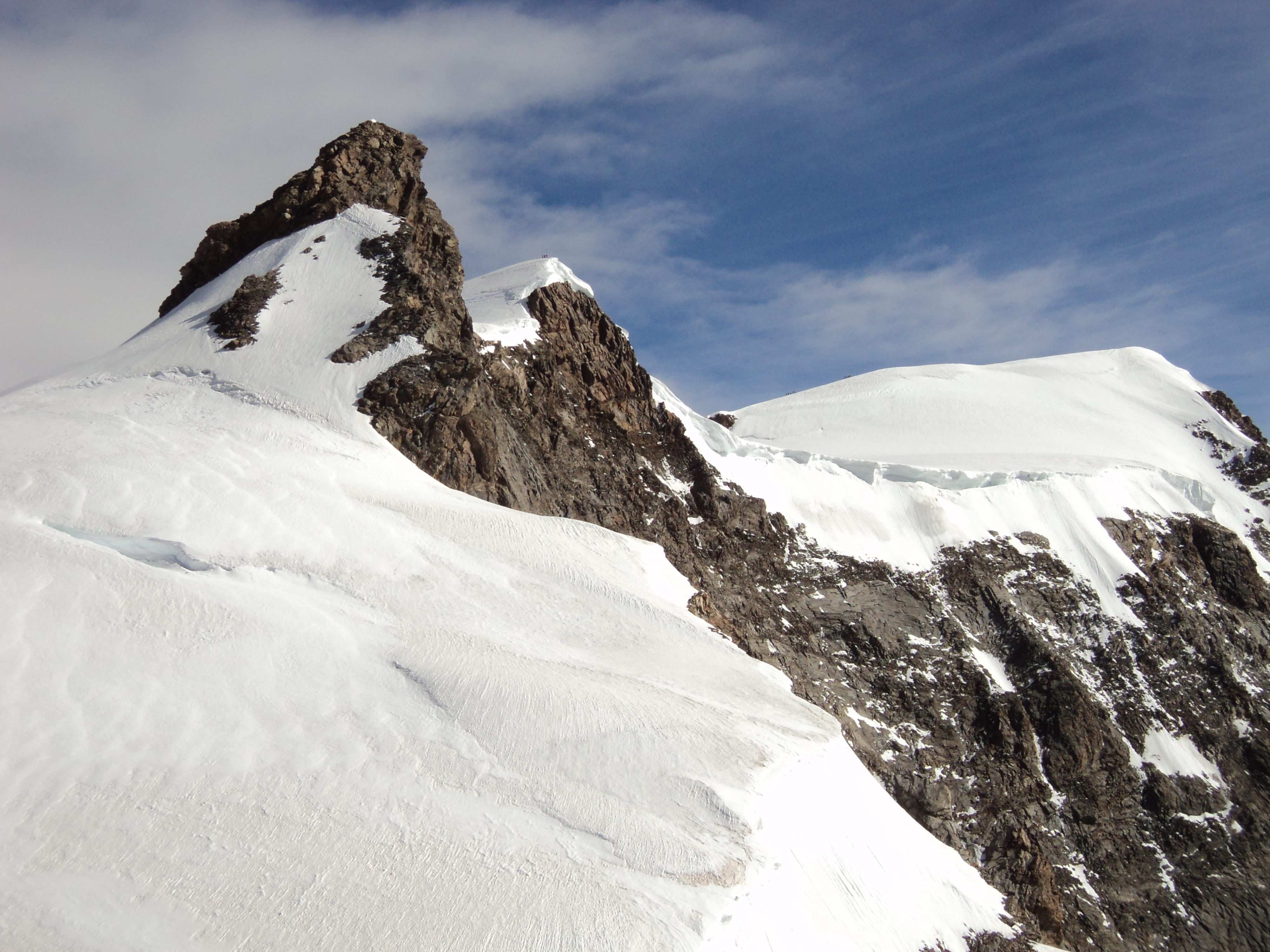 Schwarzhorn (left), Ludwigshöhe (center) and Parrotspitze (right). Monte Rosa massif